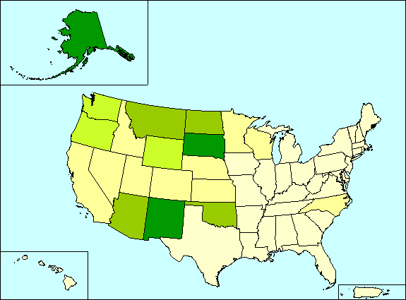 This shows the population concentration of Native Americans and Alaskan Natives in the United States during 2008, by state.